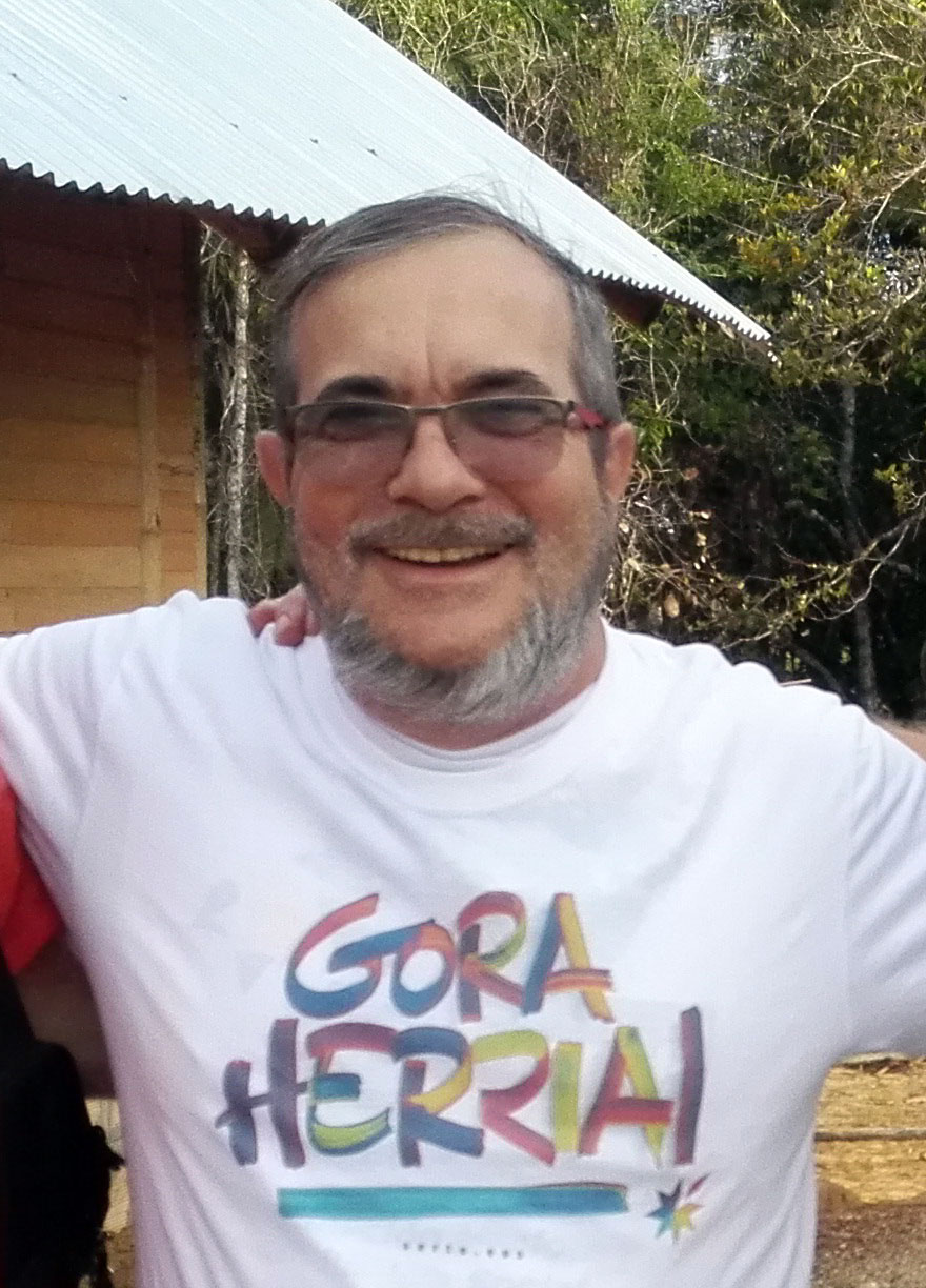 Rodrigo Londoño Echeverri, Timoleón Jiménez or Timochenko, in the X. Congress of FARC. He wears a T-shirt in Basque language with the words "Viva el pueblo"